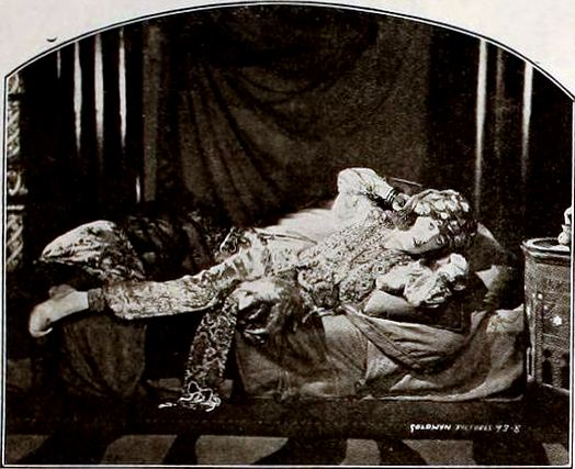 Still (cropped for original publication) from the American film The Slim Princess (1920) with Mabel Normand, on page 4972 of the June 19, 1920 Motion Picture News.